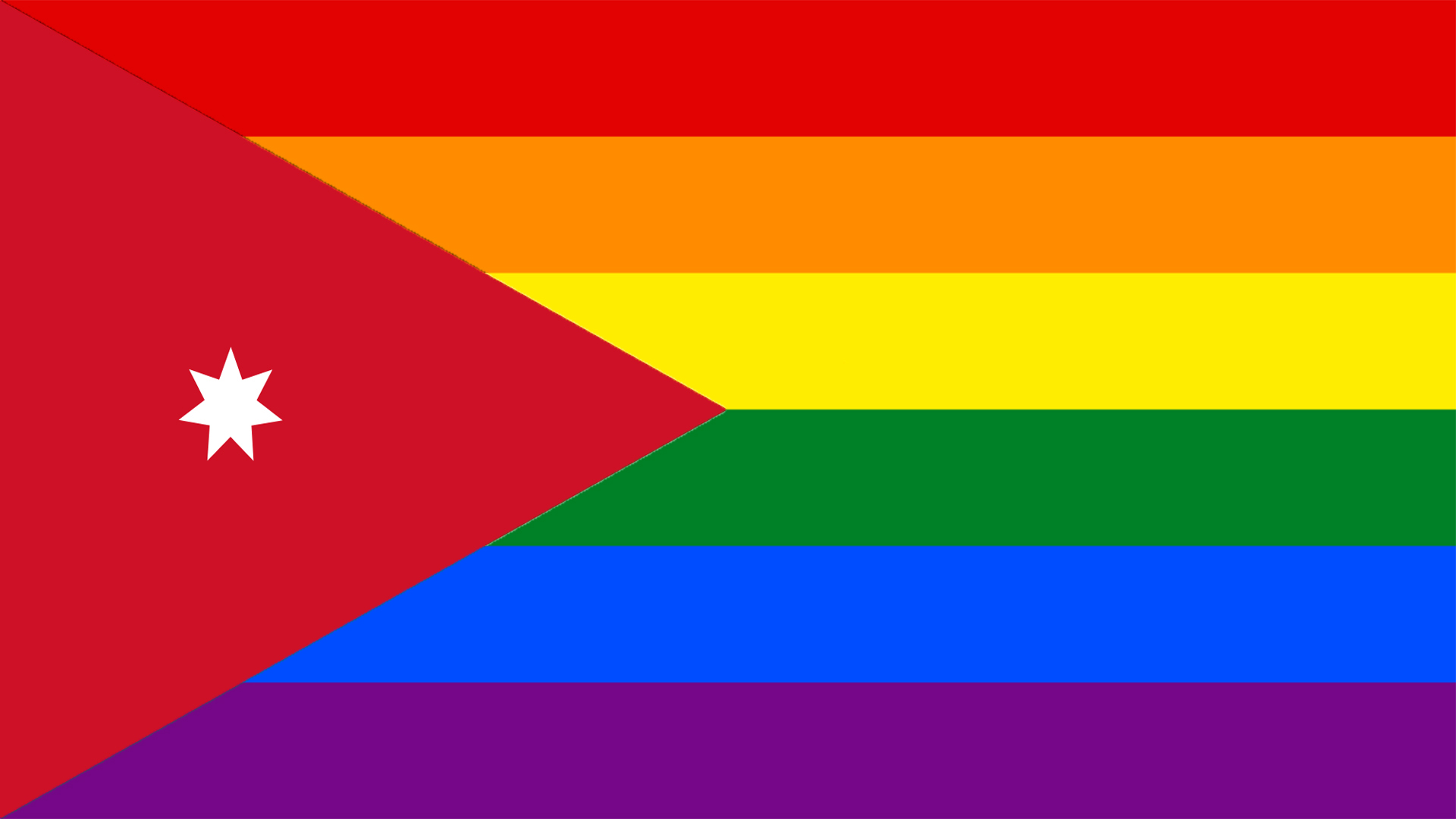 Jordanian LGBTQIA pride flag